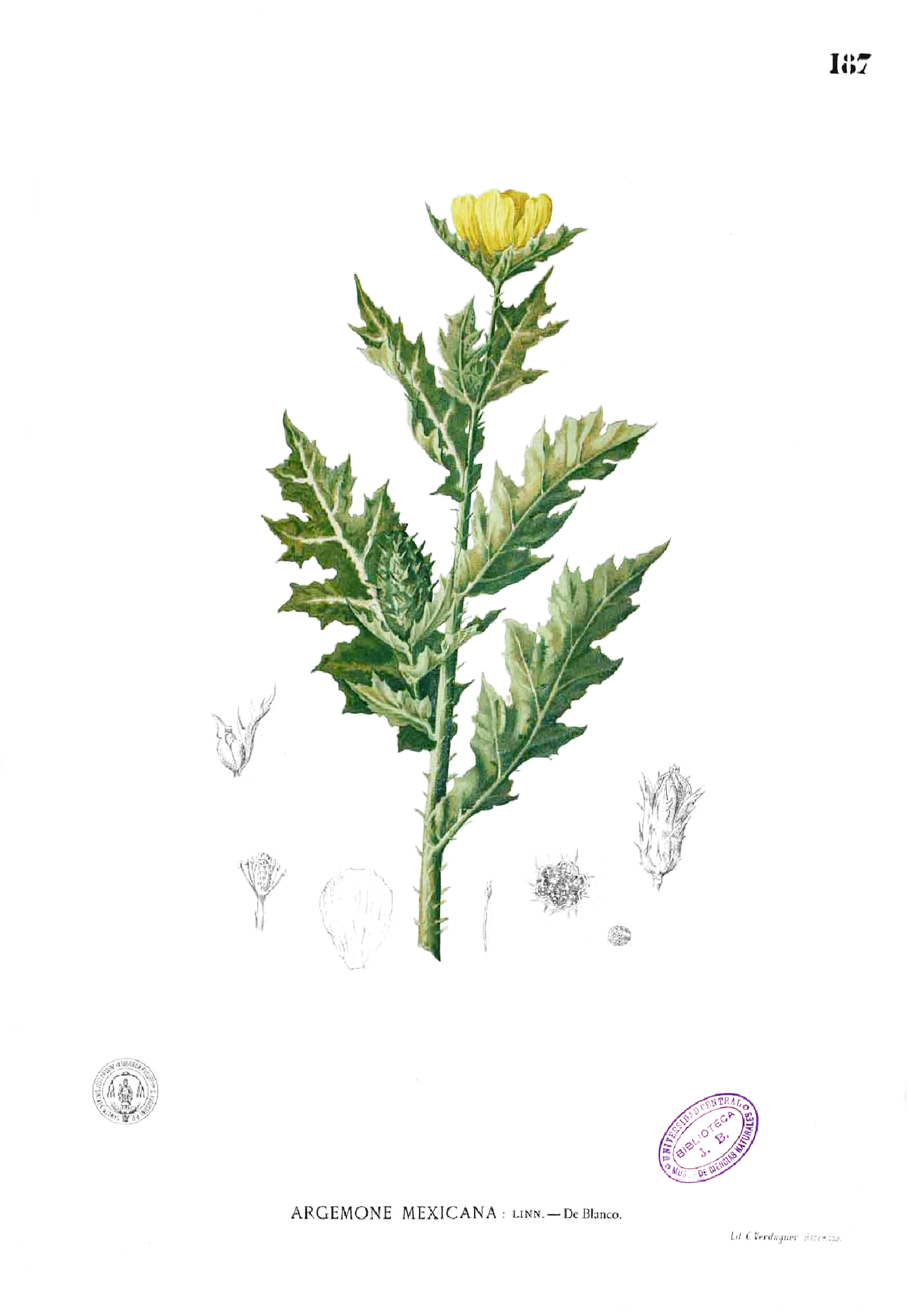 Plate from book